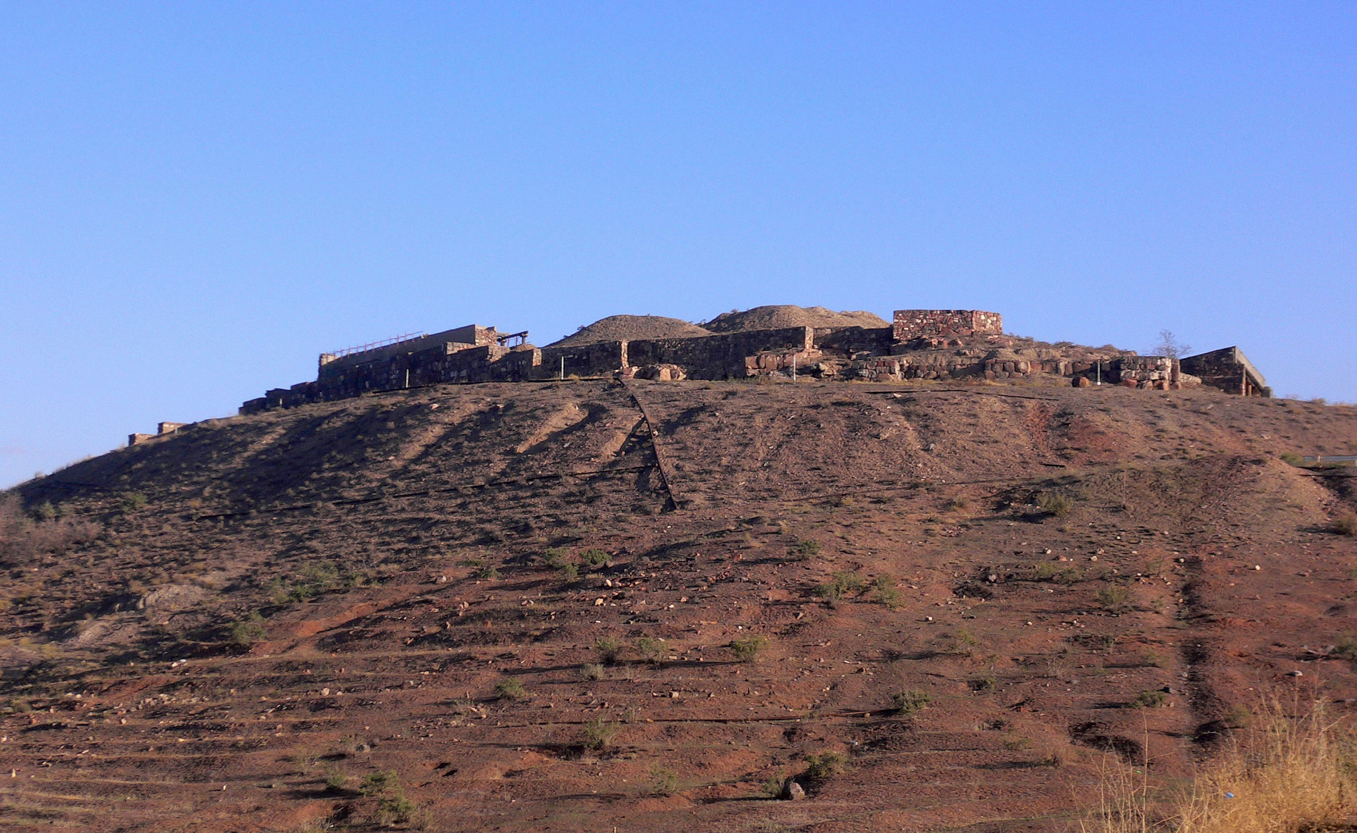 Erebuni fortress